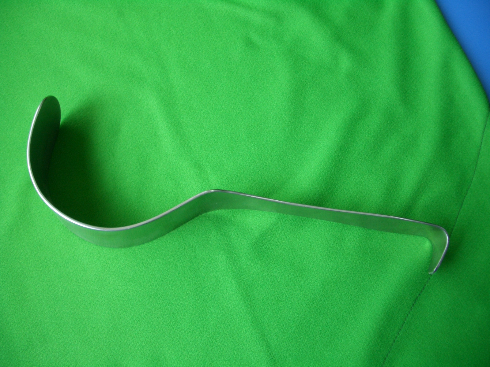 A Deaver retractor is a surgical instrument used to hold the edges of an abdominal or chest incision open so that the surgeon is able to reach the underlying organs. It is a thin, flat instrument with curved ends. The curved ends of the retractor are placed at the edges of the incision and held there by hand or clamped into place. The Deaver retractor can be used to hold organs inside the abdominal cavity away from the surgical site.